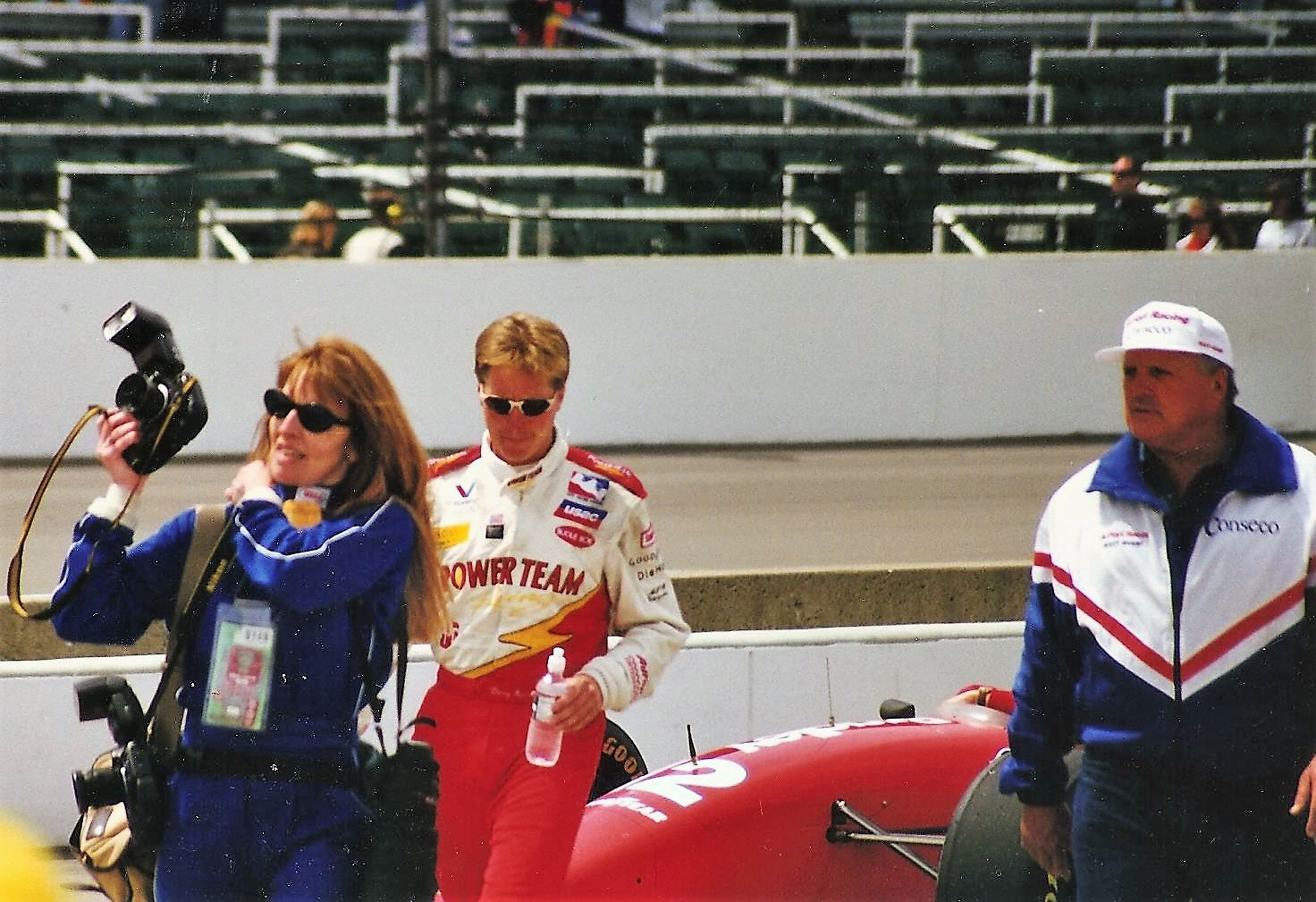 Davey Hamilton and A.J. Foyt at the 1997 Indianapolis 500